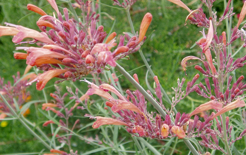 Agastache rupestris Threadleaf Giant Hyssop Licorice Mint Sunset Hyssop